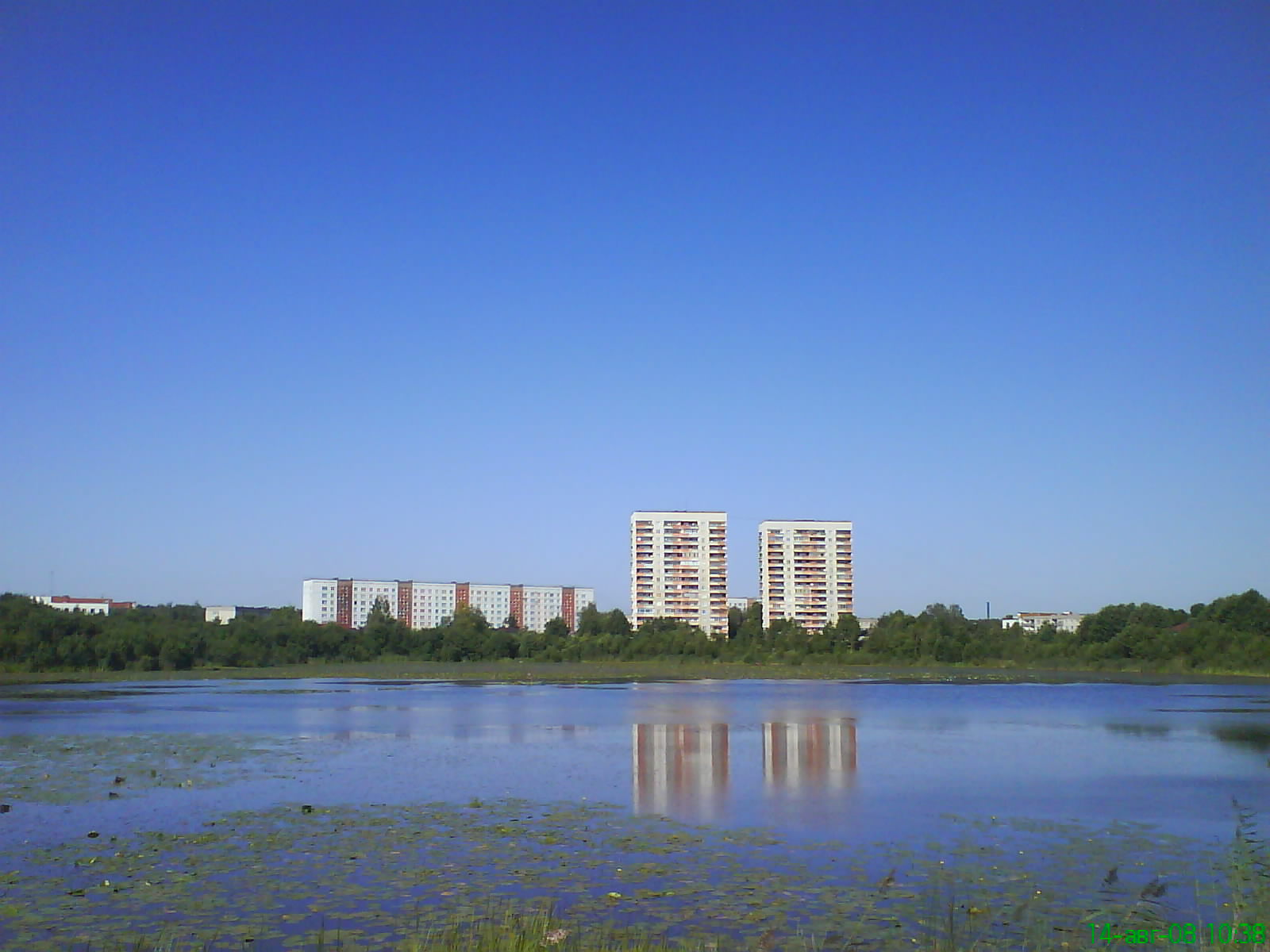 Mežciems un Gaiļezers lake